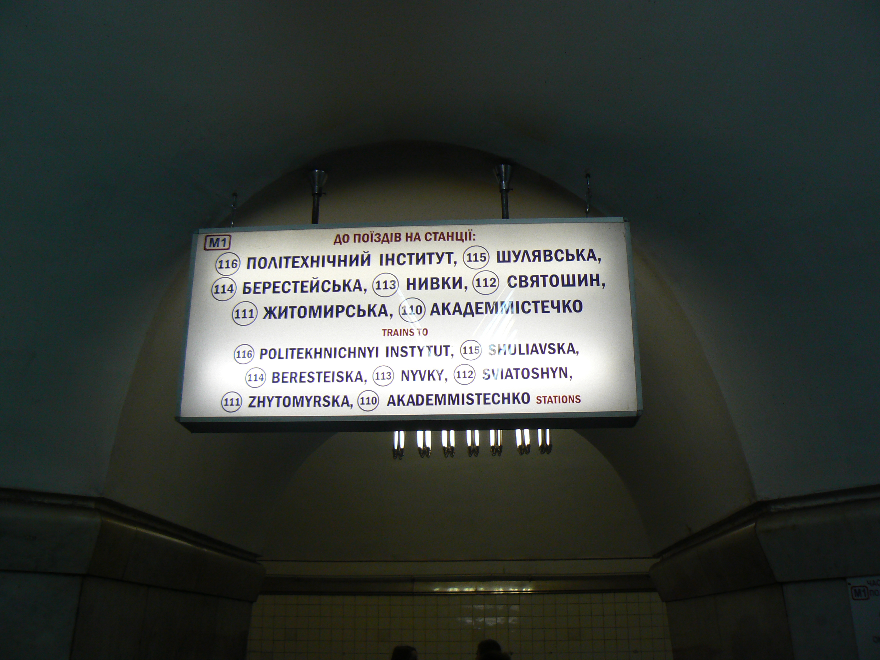 Passenger information, Kiev Metro.